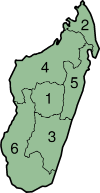 Madagascar provinces Malagasy: Faritanin'i Madagasikara Antananarivo Antsiranana Fianarantsoa Mahajanga Toamasina Toliara